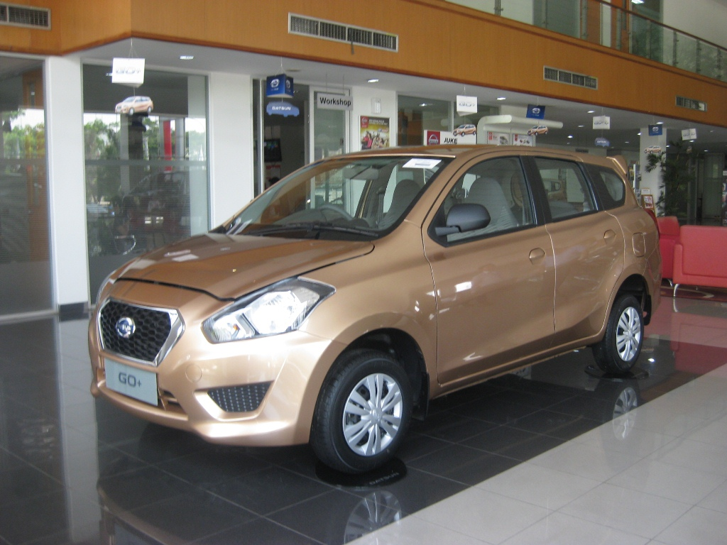 2014 Datsun GO+ 1.2 photographed in Jakarta, Indonesia.